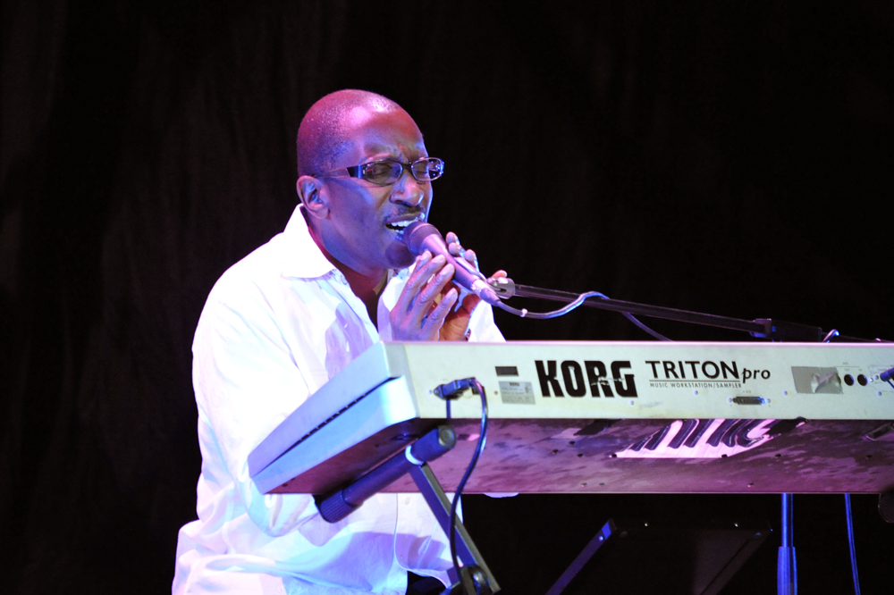 Greg Phillinganes performing with Herbie Hancock in Warszawa, Poland.